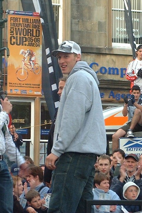 Steve Peat at Fort William World cup 2004.